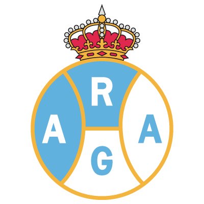 Old logo of the Belgian football club K.A.A. Gent, when it was still A.R.A.G. = Association Royale Athlétique La Gantoise